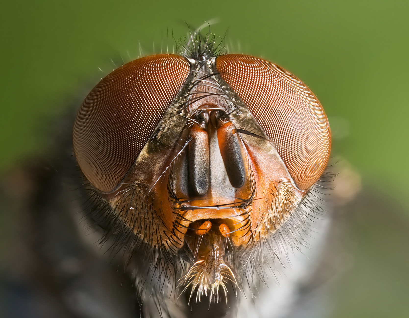 Blue bottle fly (Calliphora vomitoria) Portrait, Austin's Ferry, Tasmania, Australia. 3.5:1 magnification.